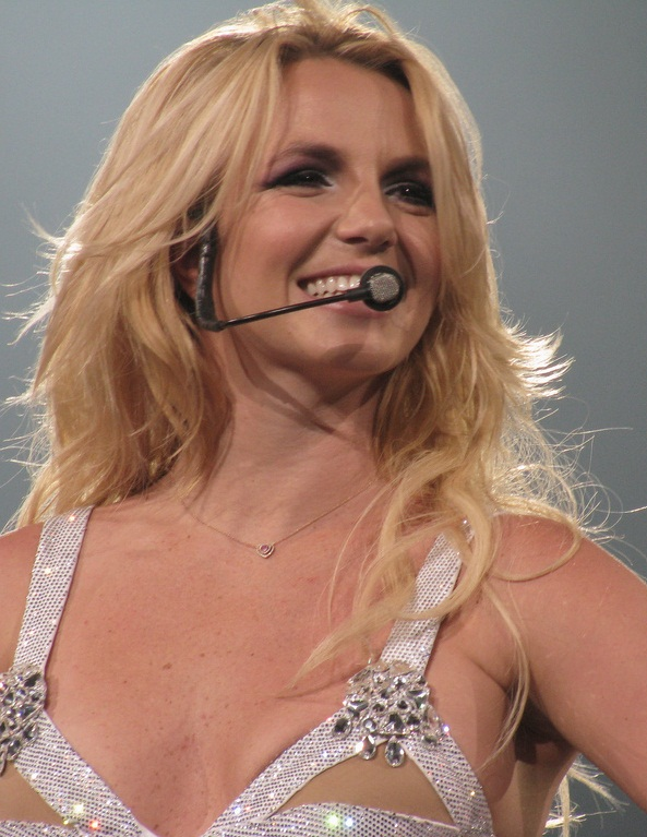 Britney Spears performing "Hold It Against Me" at the Femme Fatale Tour on July 26, 2011.